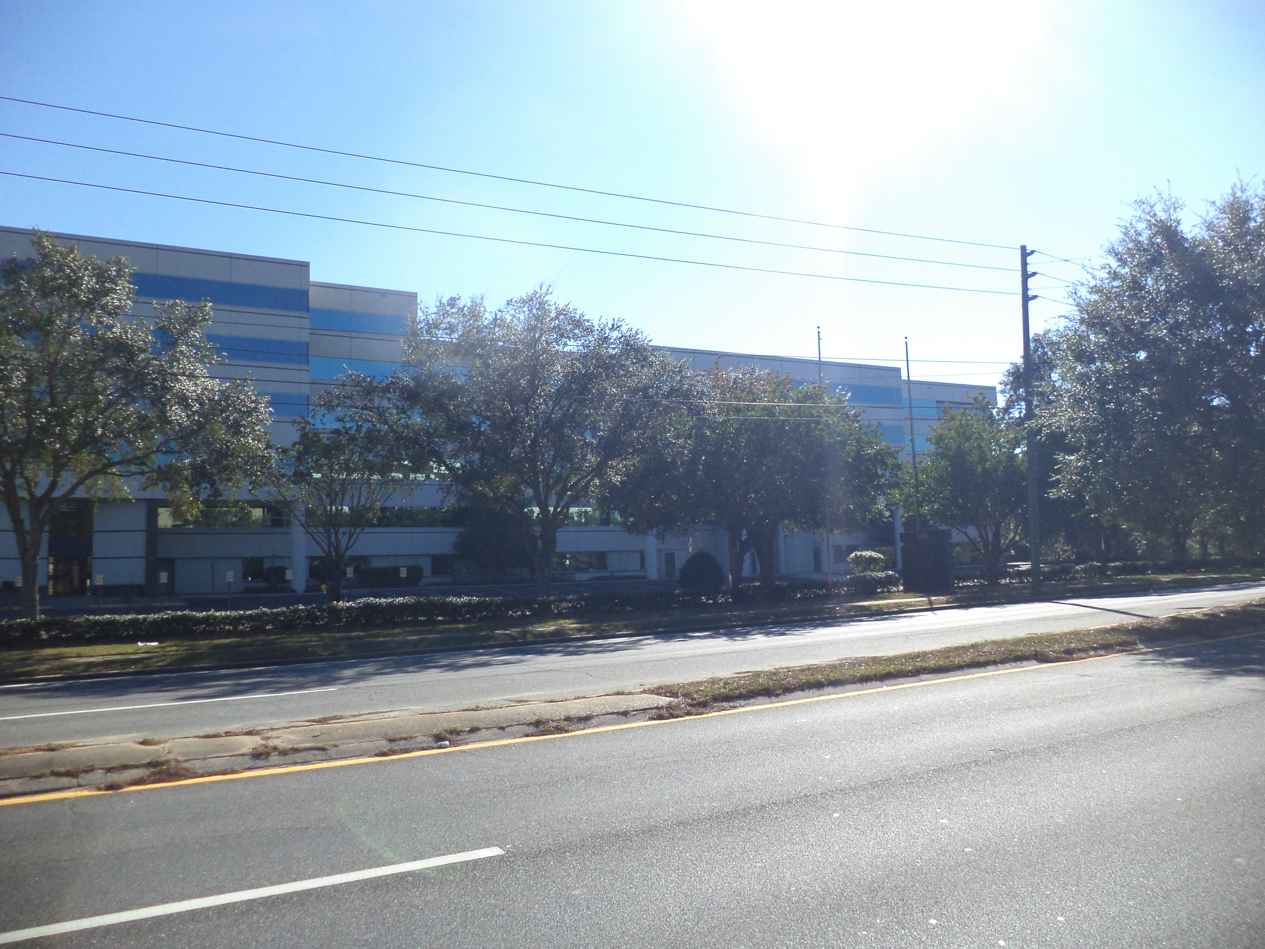 Old Florida Department of Corrections headquarters, 2601 Blair Stone Road Tallahassee, Florida 32399-2500